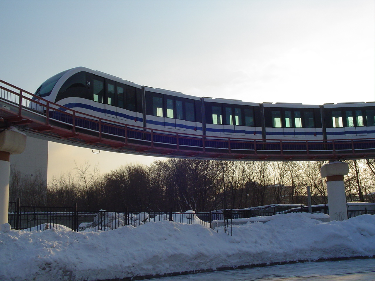 Timiryazevskaya station of Moscow Monorail